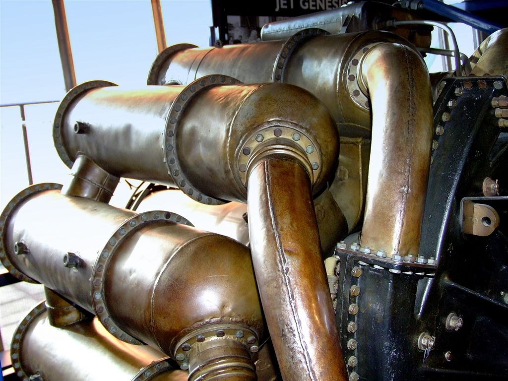 Frank Whittle's turbojet engine W.1. Detail of combustion chambers.